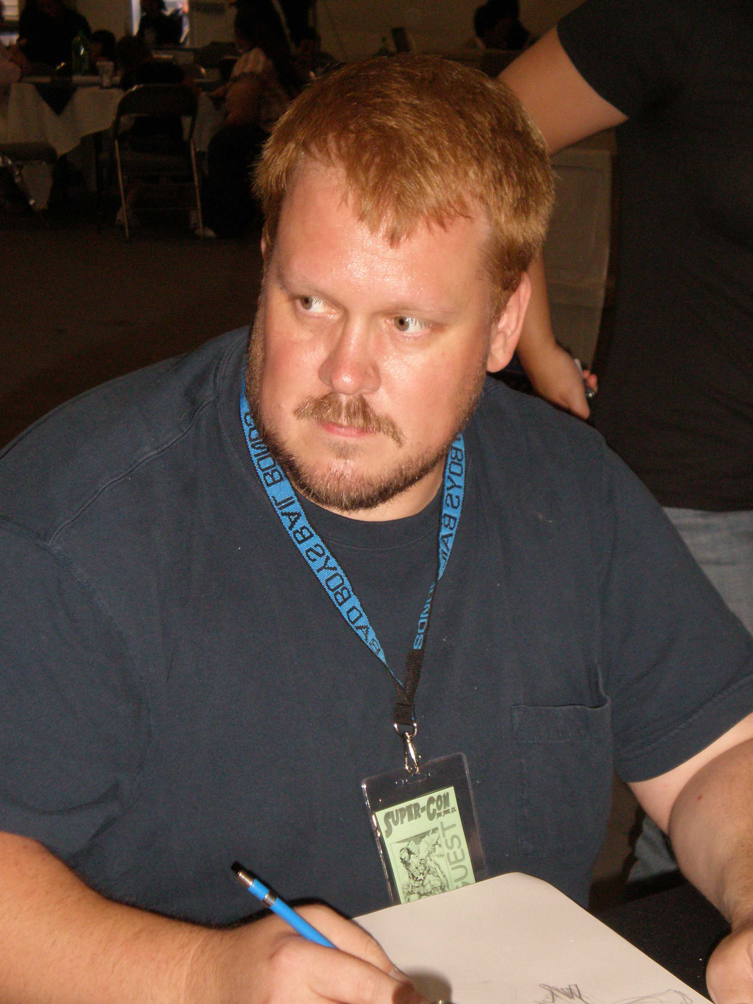 Adam Hughes at Super-Con 2009 in San Jose, California.